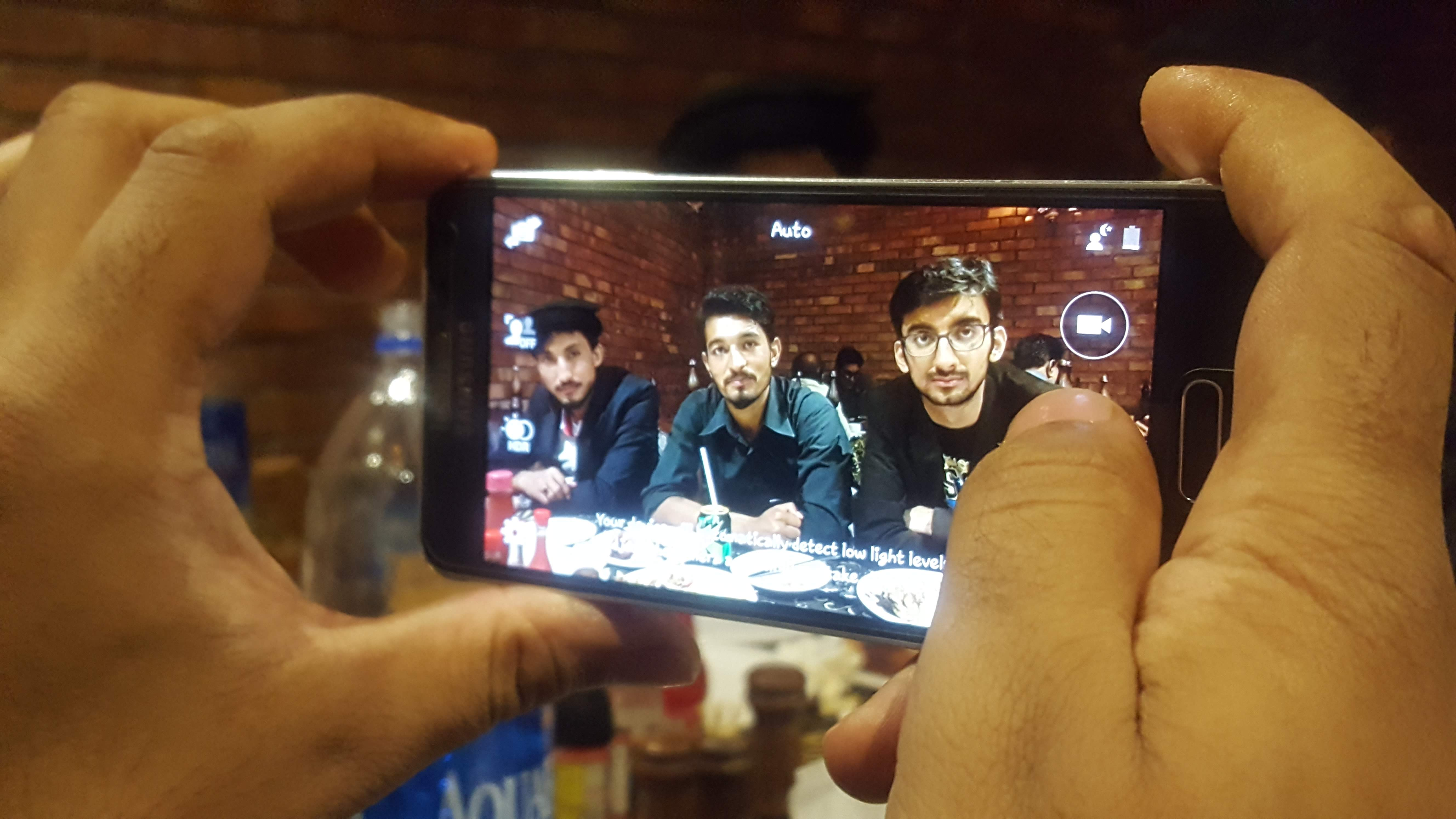 A Samsung Galaxy Note 4 is being used to photograph persons.